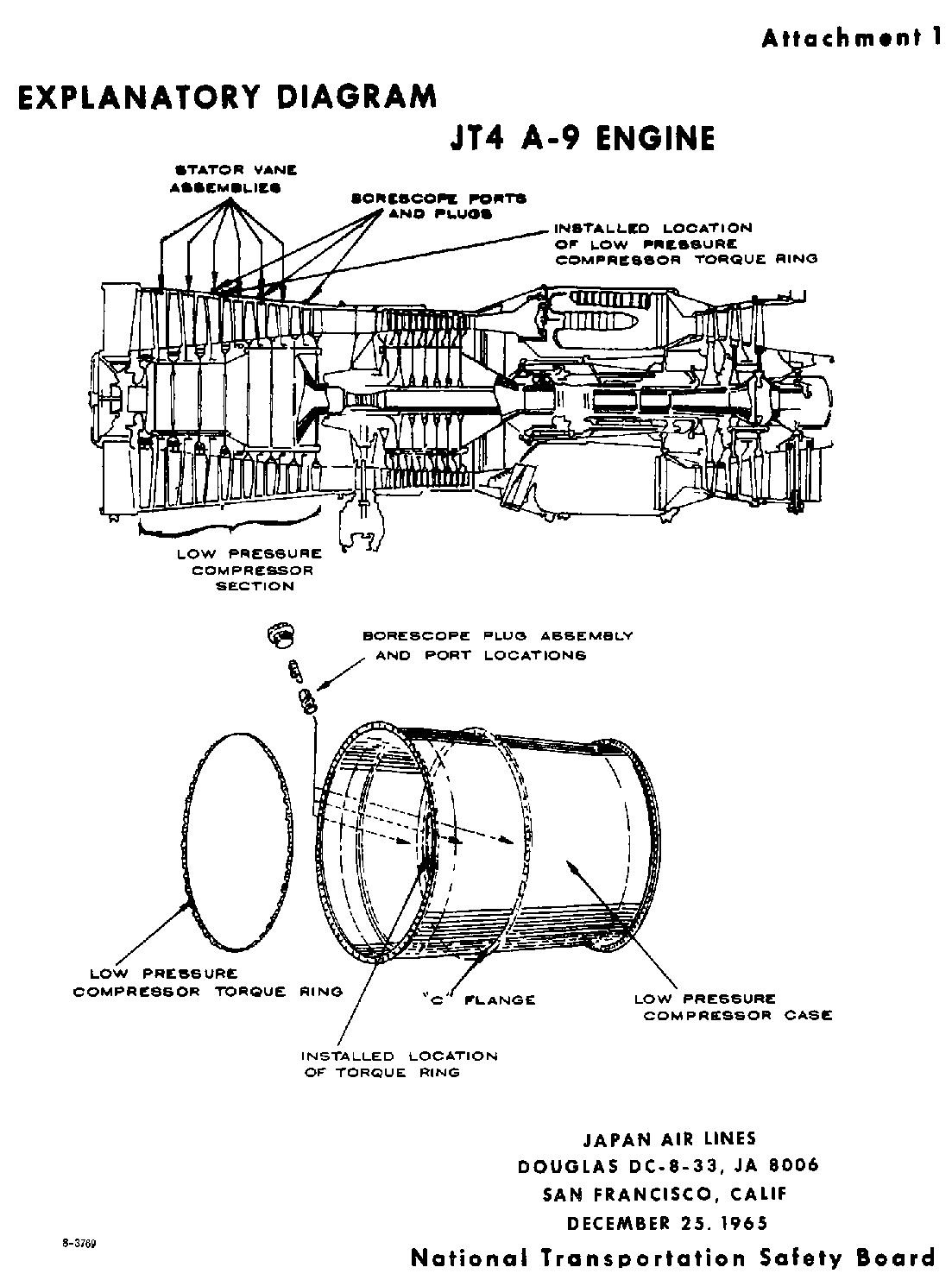 NTSB Report, Japan Air Lines Flight 813 - Attachment 1 JT4 A-9 Engine